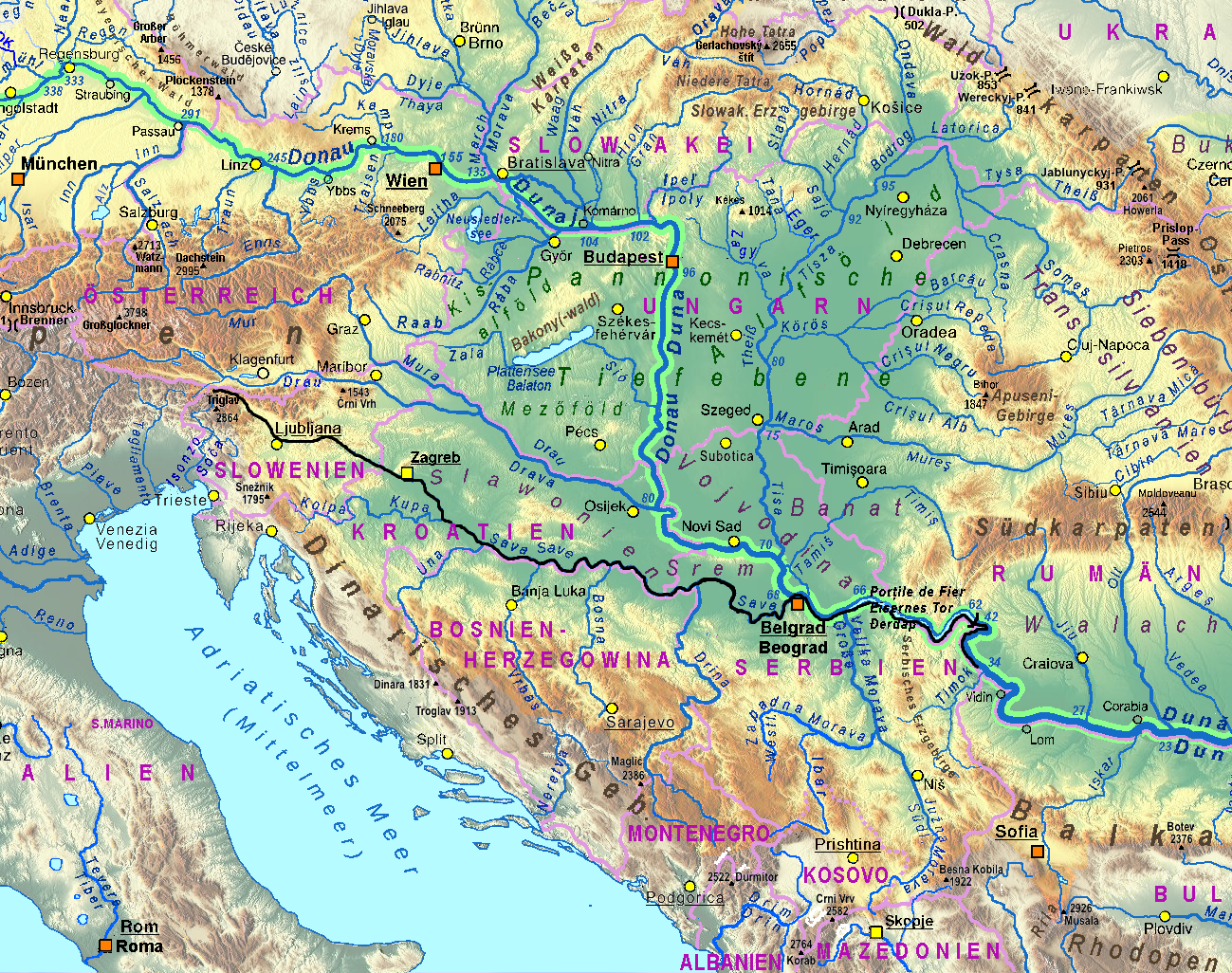 Sava-Danube alignment to the Serbian-Bulgarian border